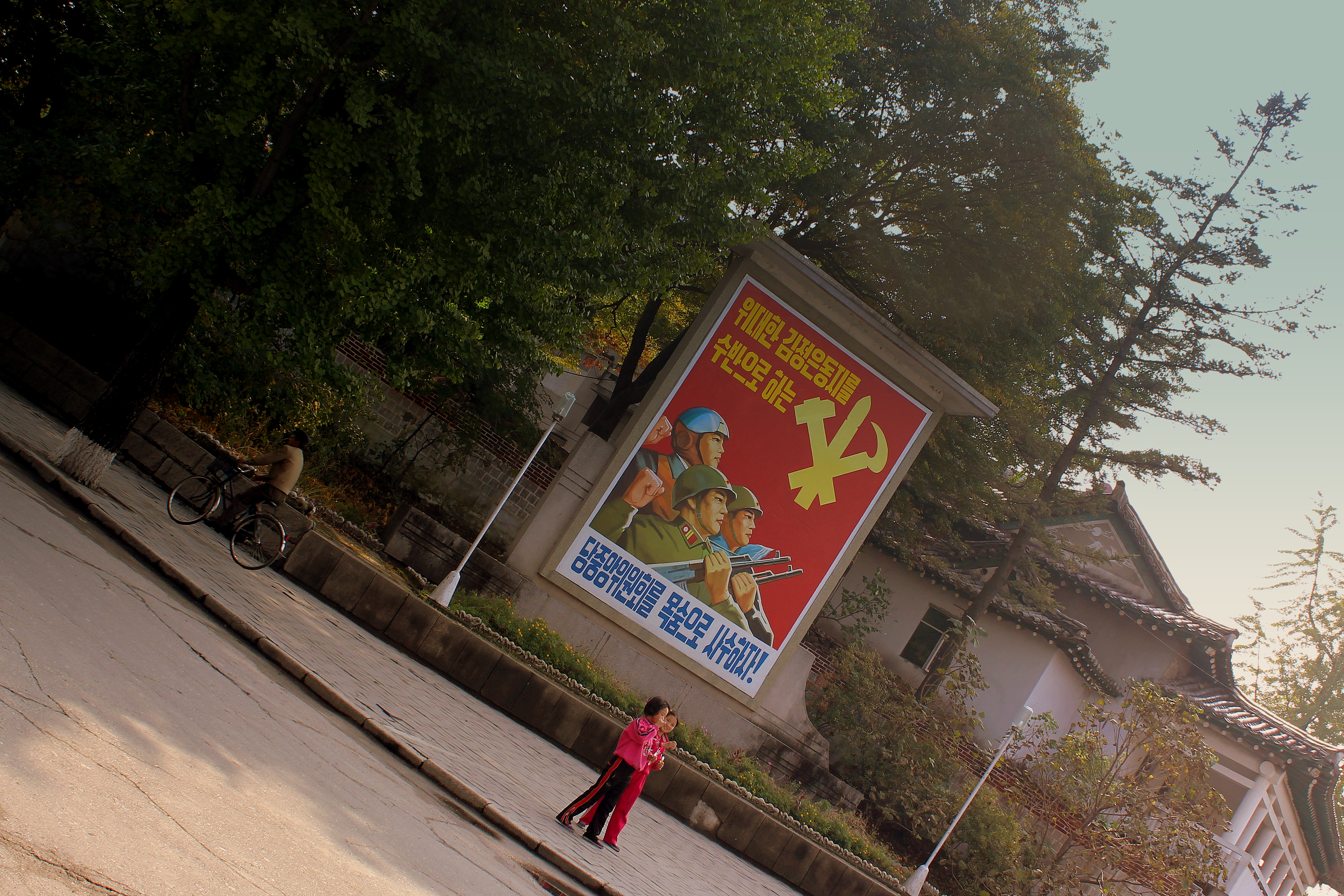 CHILDREN WALK UNDER THE SOGUN PROPAGANDA SLOGAN IN KAESONG CITY DPR KOREA OCT 2012